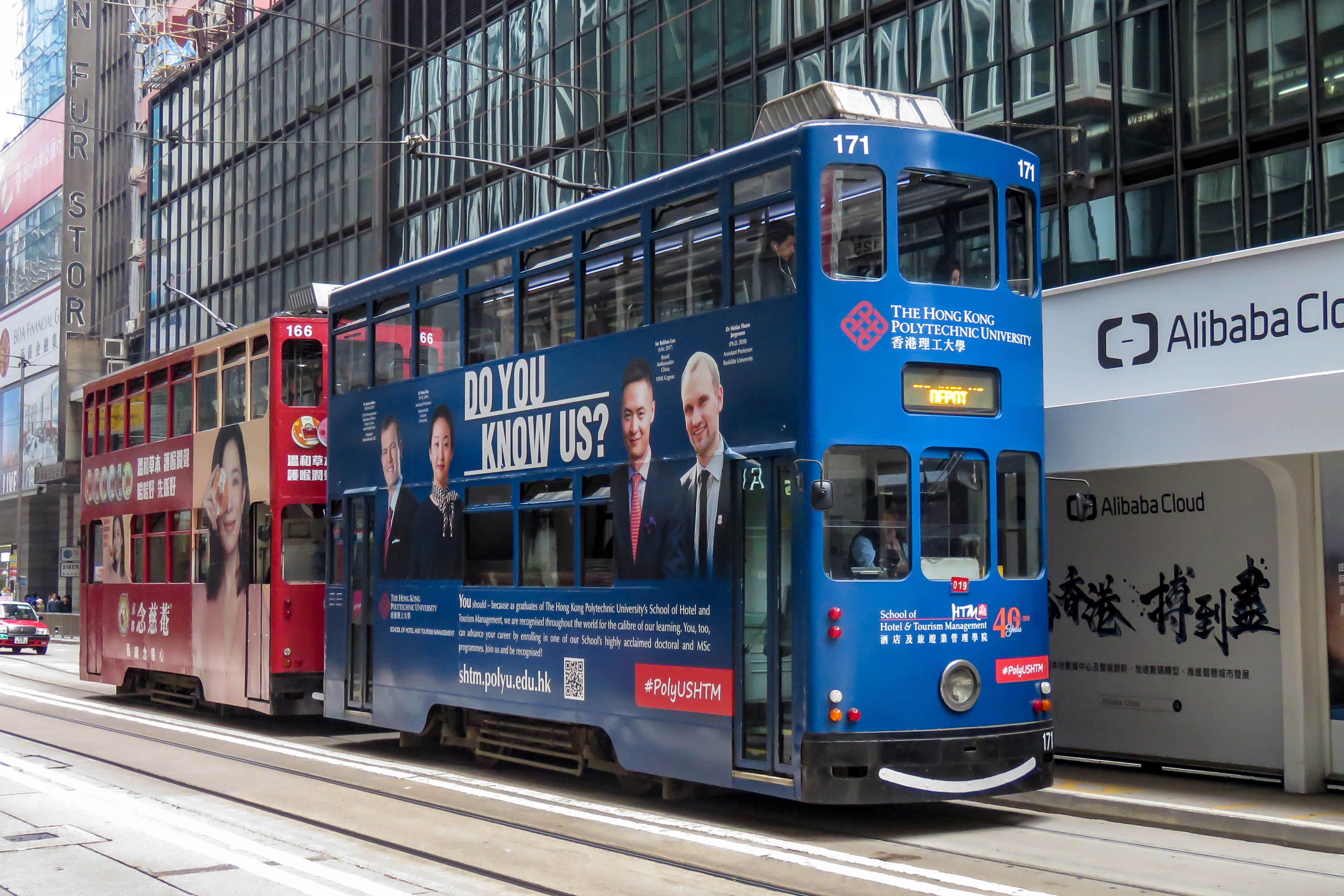 171 has just got an advertisement of PolyU School of Hotel and Tourism Management.